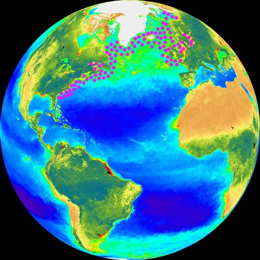 Atlantic herring distribution graph uwe kils gfdl self